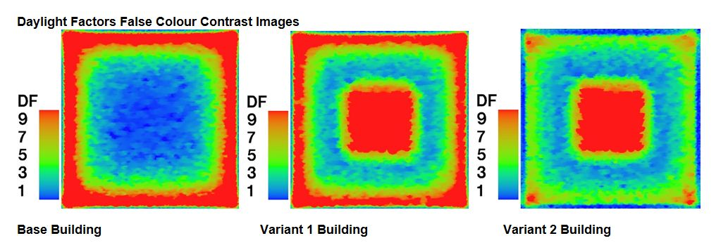 A plot of three different daylight factor colour rendered plots. Using IES Radiance software module.